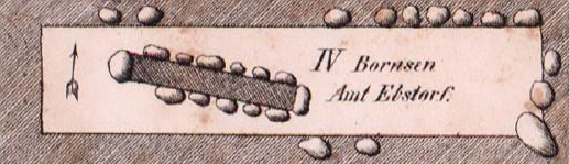 Megalithic tomb near Bornsen (Bienenbüttel), Sprockhoff-No. 741